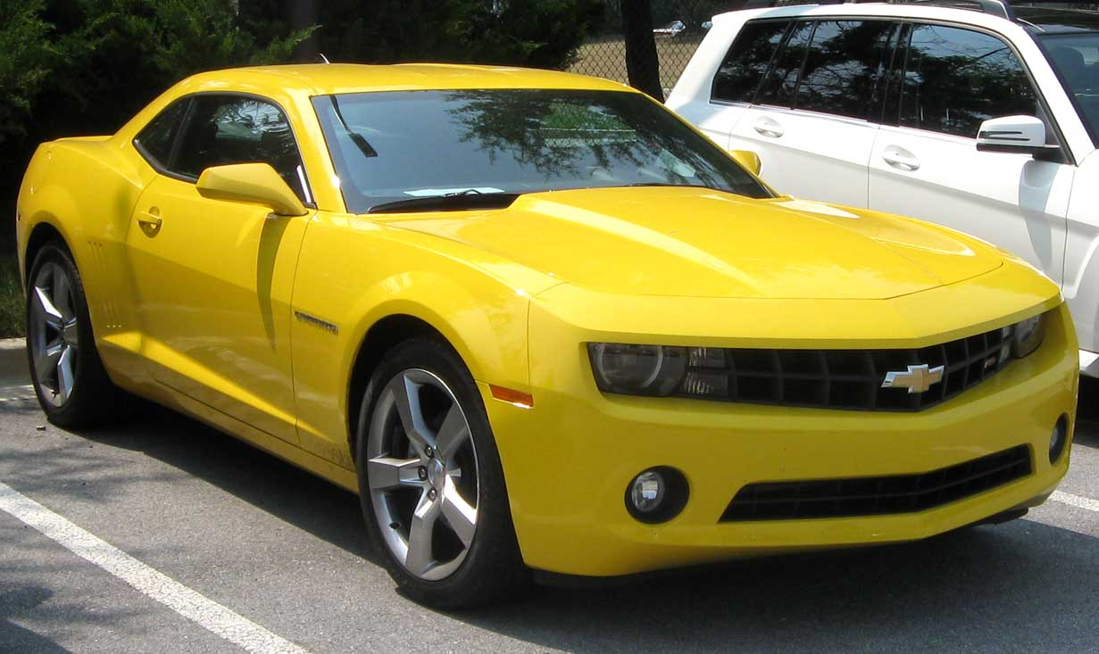 2010 Chevrolet Camaro photographed in Upper Marlboro, Maryland, USA.